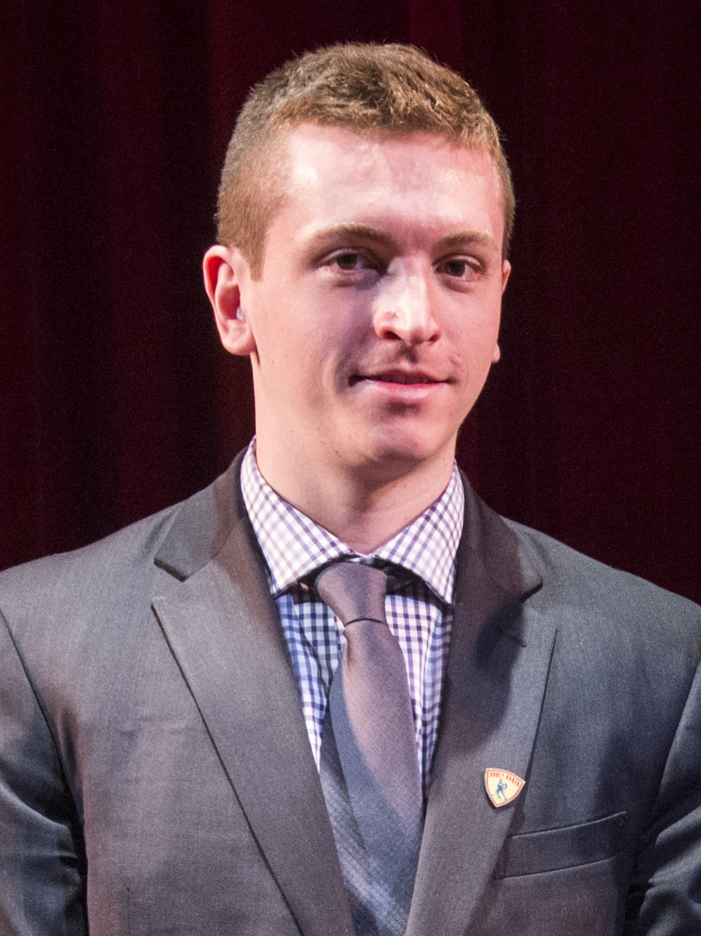 Jimmy Vesey from the Hobey Baker Memorial Award Announcement, Tampa, Fla., April 8, 2016. U.S. Army Chief of Staff, Gen. Mark A. Milley, a former Princeton hockey player, was presented the Lou Lamoriello Award for 2016, named for the former Princeton College player, coach, and war veteran, for his unique and distinguished career. (U.S. Army photograph by Staff Sgt. Chuck Burden /released).